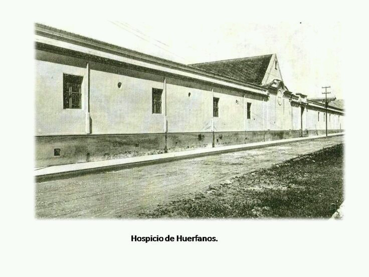 Image of Hospicio de Huérfanos de San José, Costa Rica part of the Saint Paul Charity Society projects since 1887.